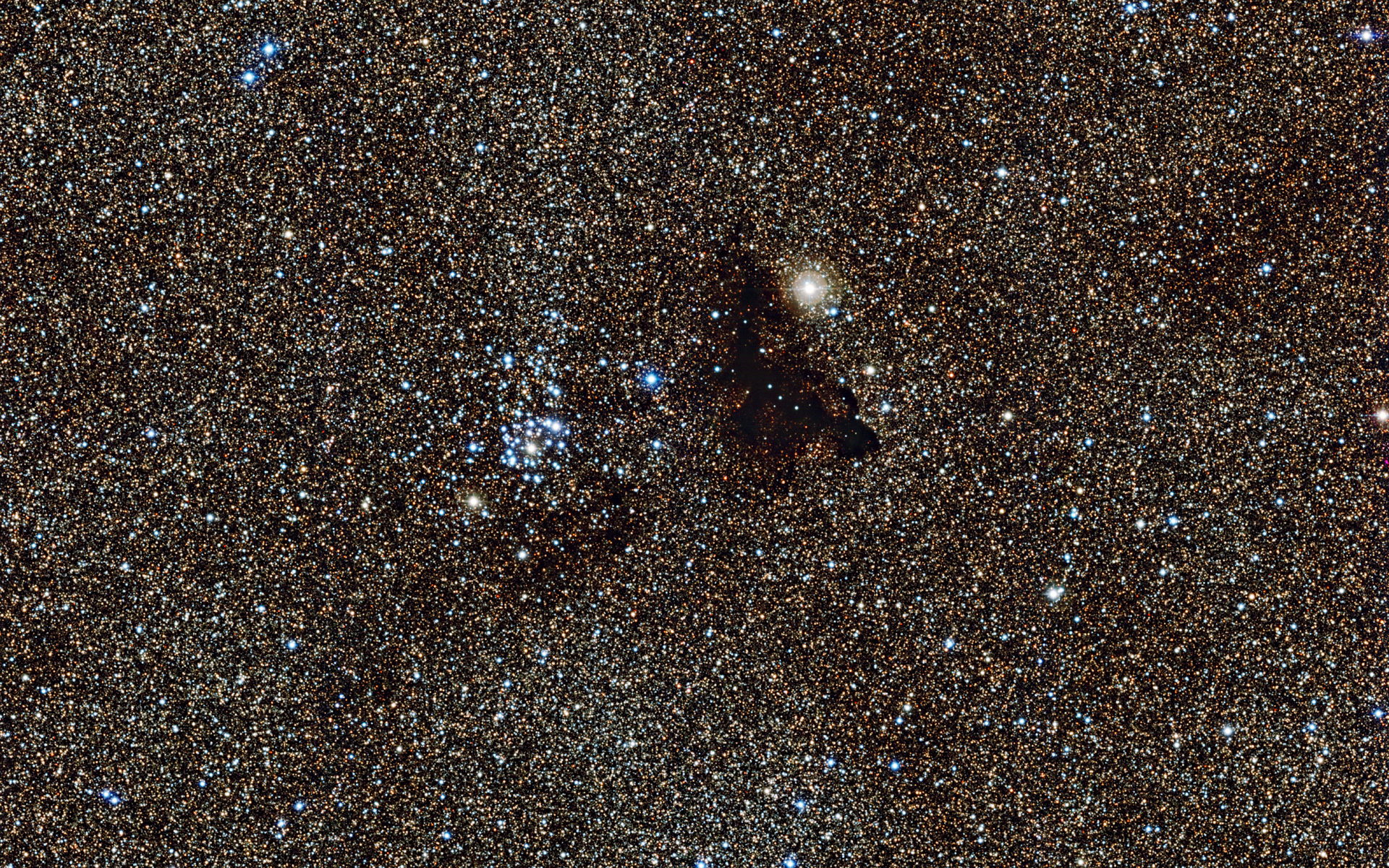 This image from the Wide Field Imager on the MPG/ESO 2.2-metre telescope at ESO’s La Silla Observatory in Chile, shows the bright star cluster NGC 6520 and its neighbour, the strangely shaped dark cloud Barnard 86. This cosmic pair is set against millions of glowing stars from the brightest part of the Milky Way — a region so dense with stars that barely any dark sky is seen across the picture.